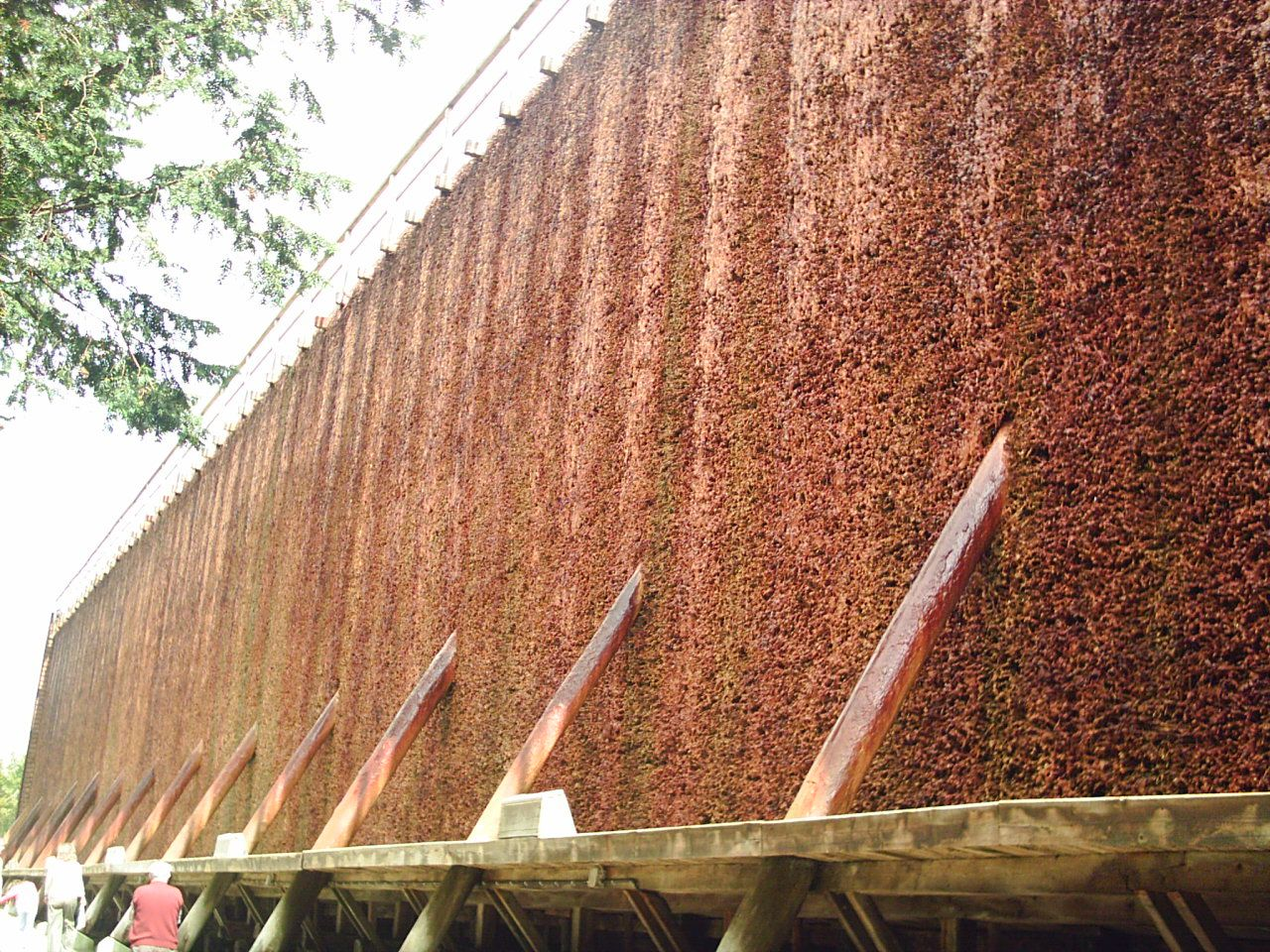 salt works, Bad Salzuflen, Germany check usage